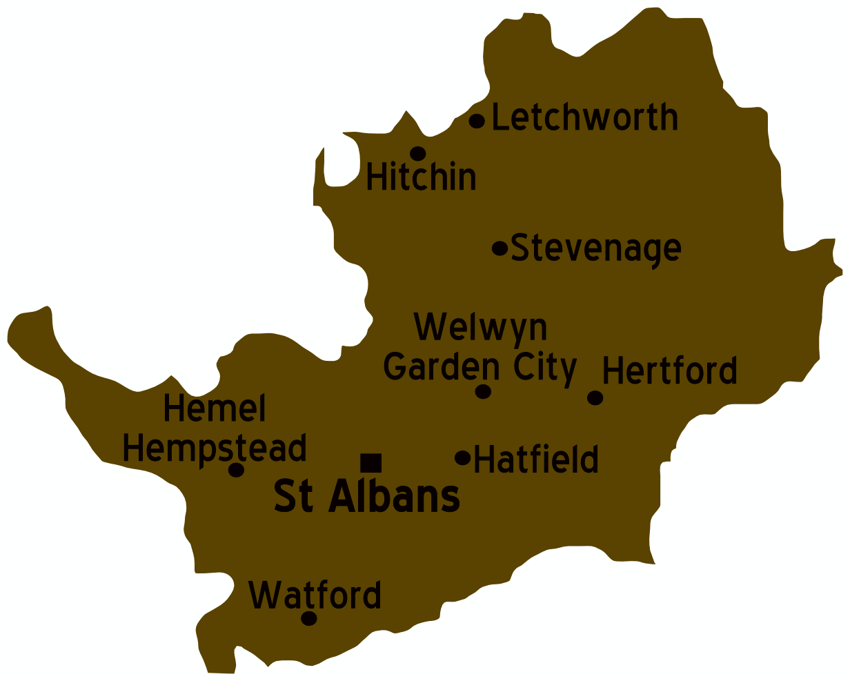 Map of Hertfordshire Source: :Image:UK map.svg map: England Map of: England